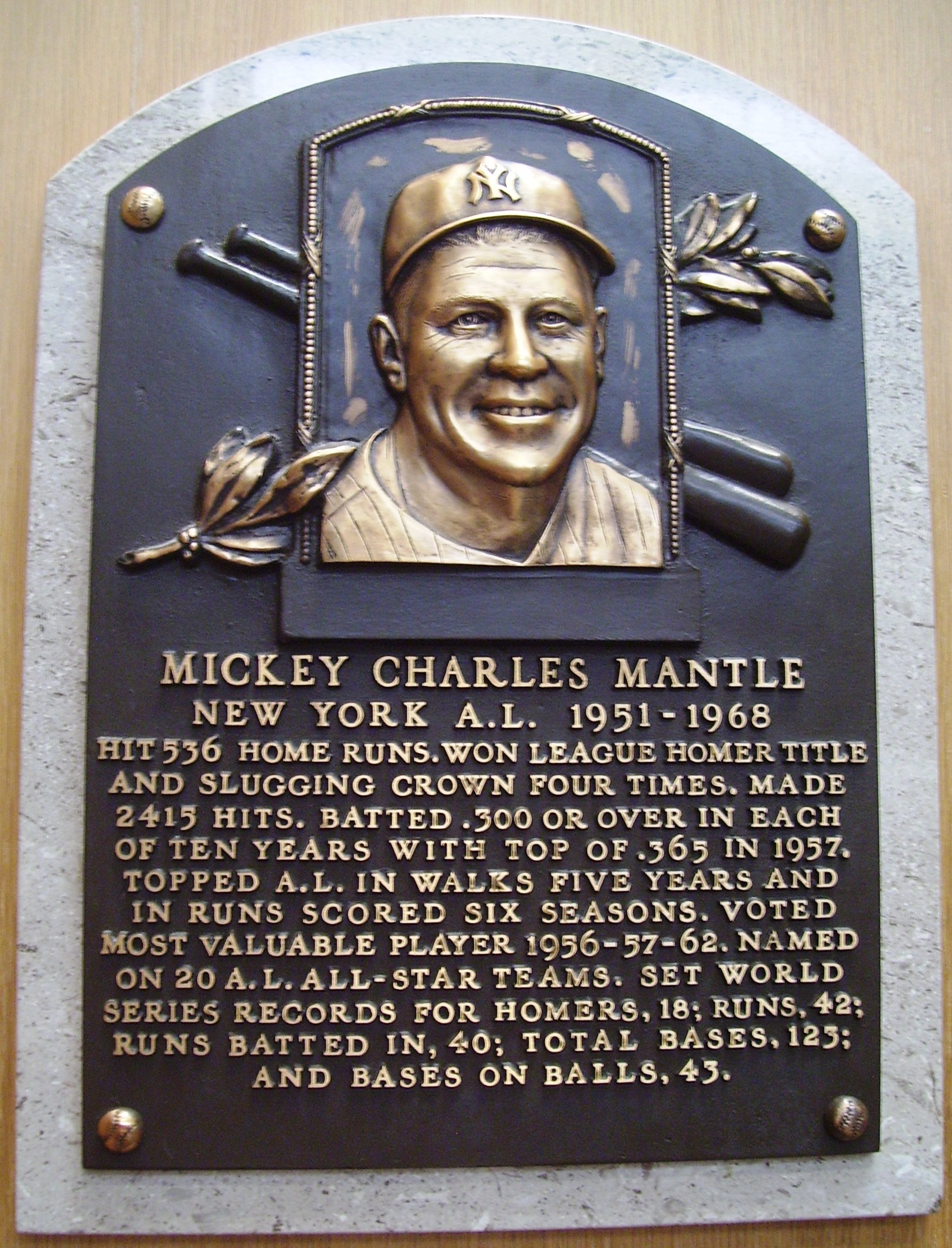 Mickey Mantle's plaque in the National Baseball Hall of Fame and Museum